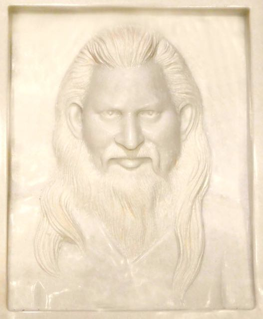 Picture of a marble plaque showing Acharya Sushil Kumar from a private collection